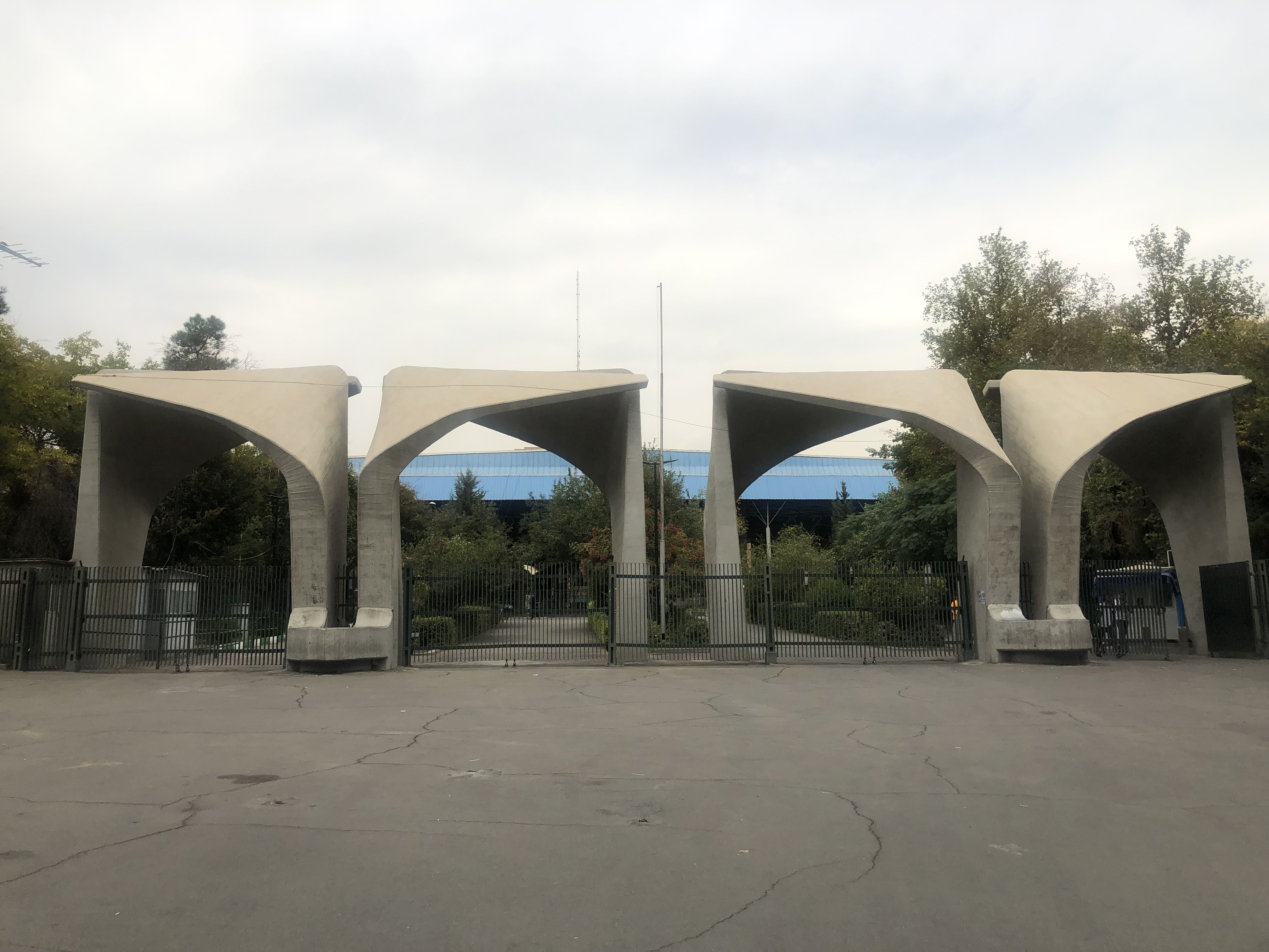 University of Tehran main entrance